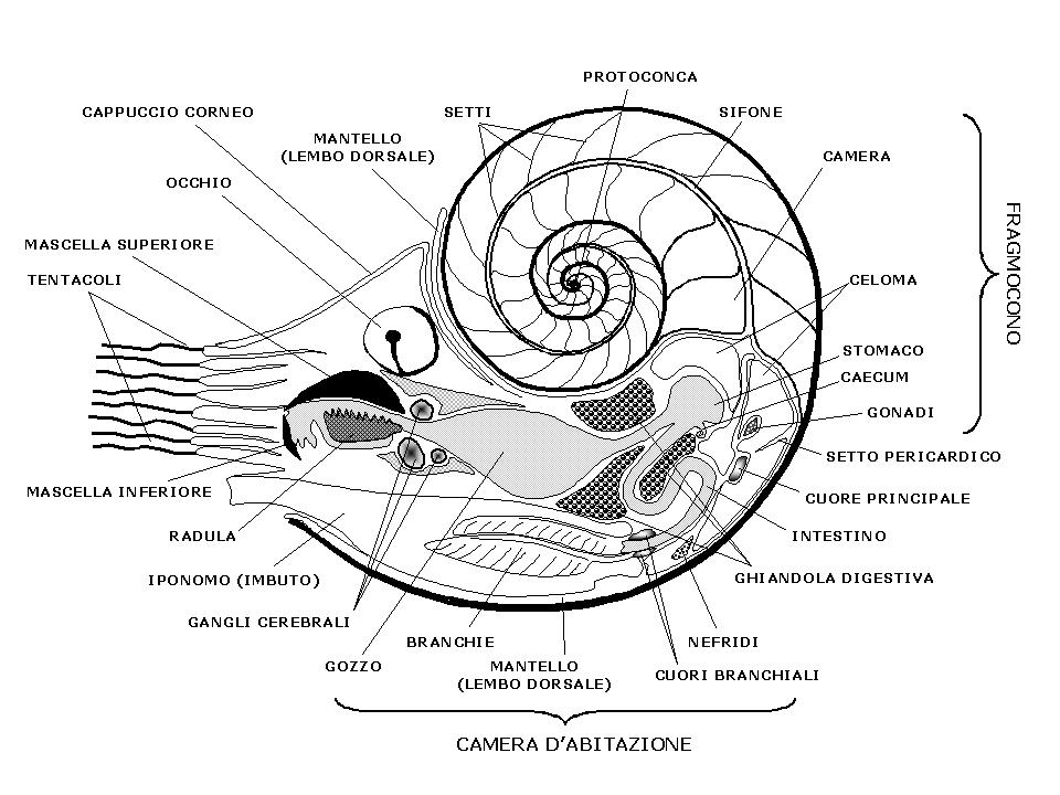 Anatomic sketch of Nautilus (simplified).